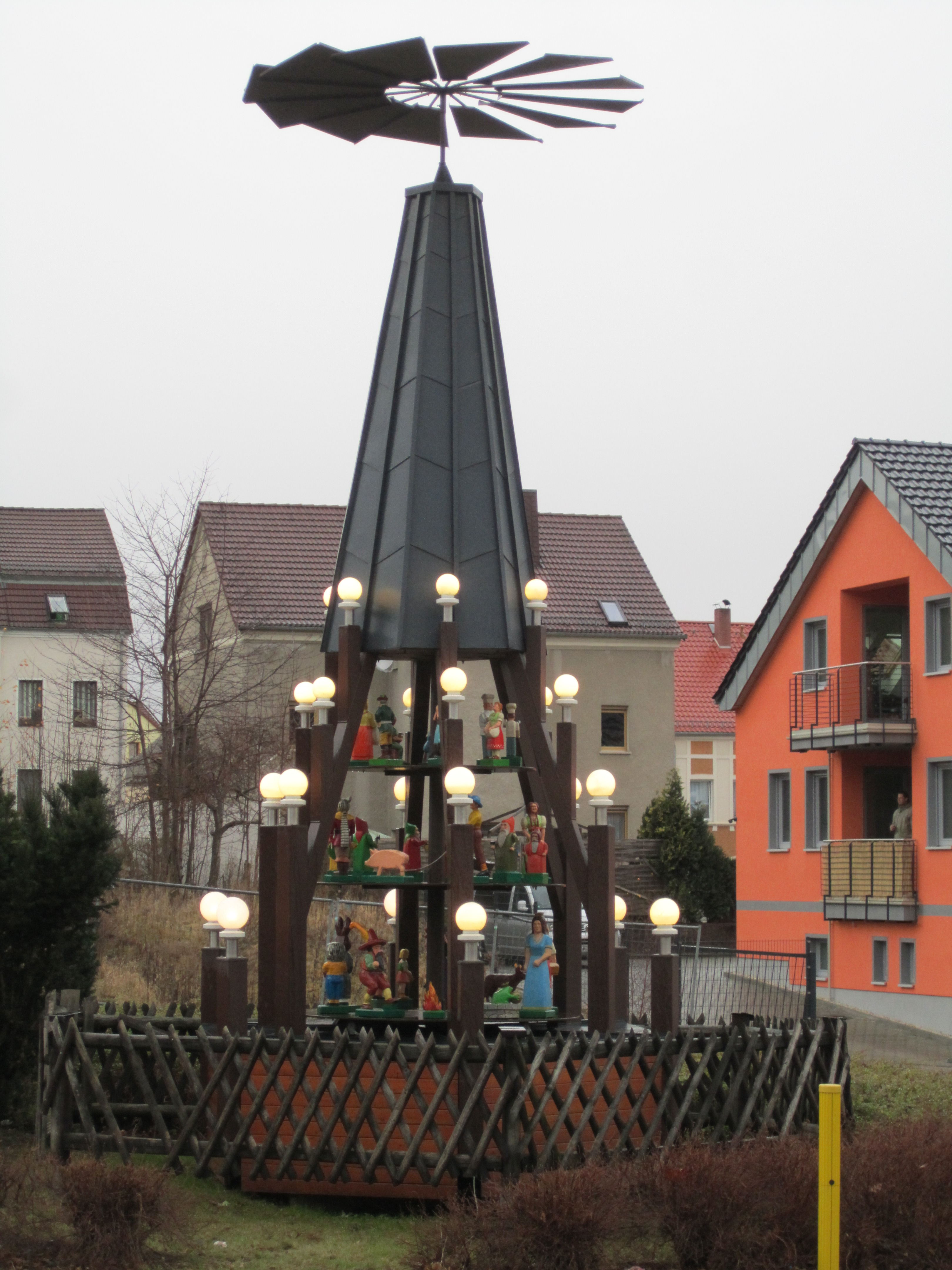 Christmas pyramid of Planitz, community of Zwickau, Saxony, Germany.